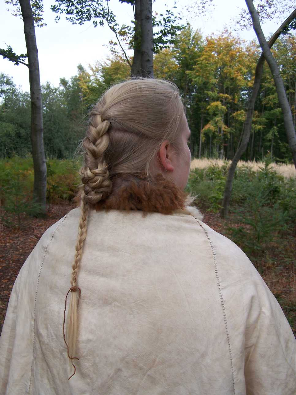 Reconstruction of hairstyle and skincape of the bogbody Elling Woman near Silkeborg, Denmark. Approx. 2nd century BC